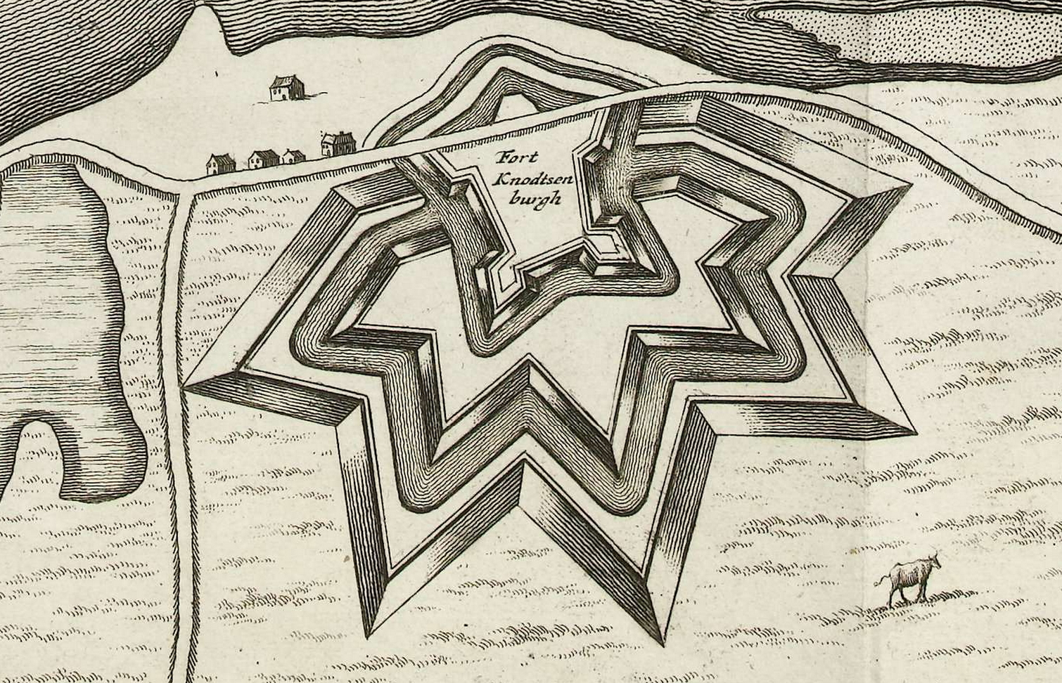 Fort Knodsenburg, Netherlands